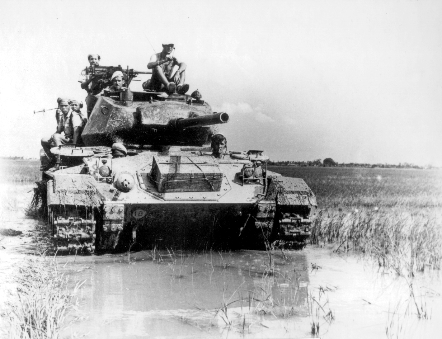 M24 (CHAFFEE) AMERICAN LIGHT TANK USED BY FRENCH IN VIETNAM.